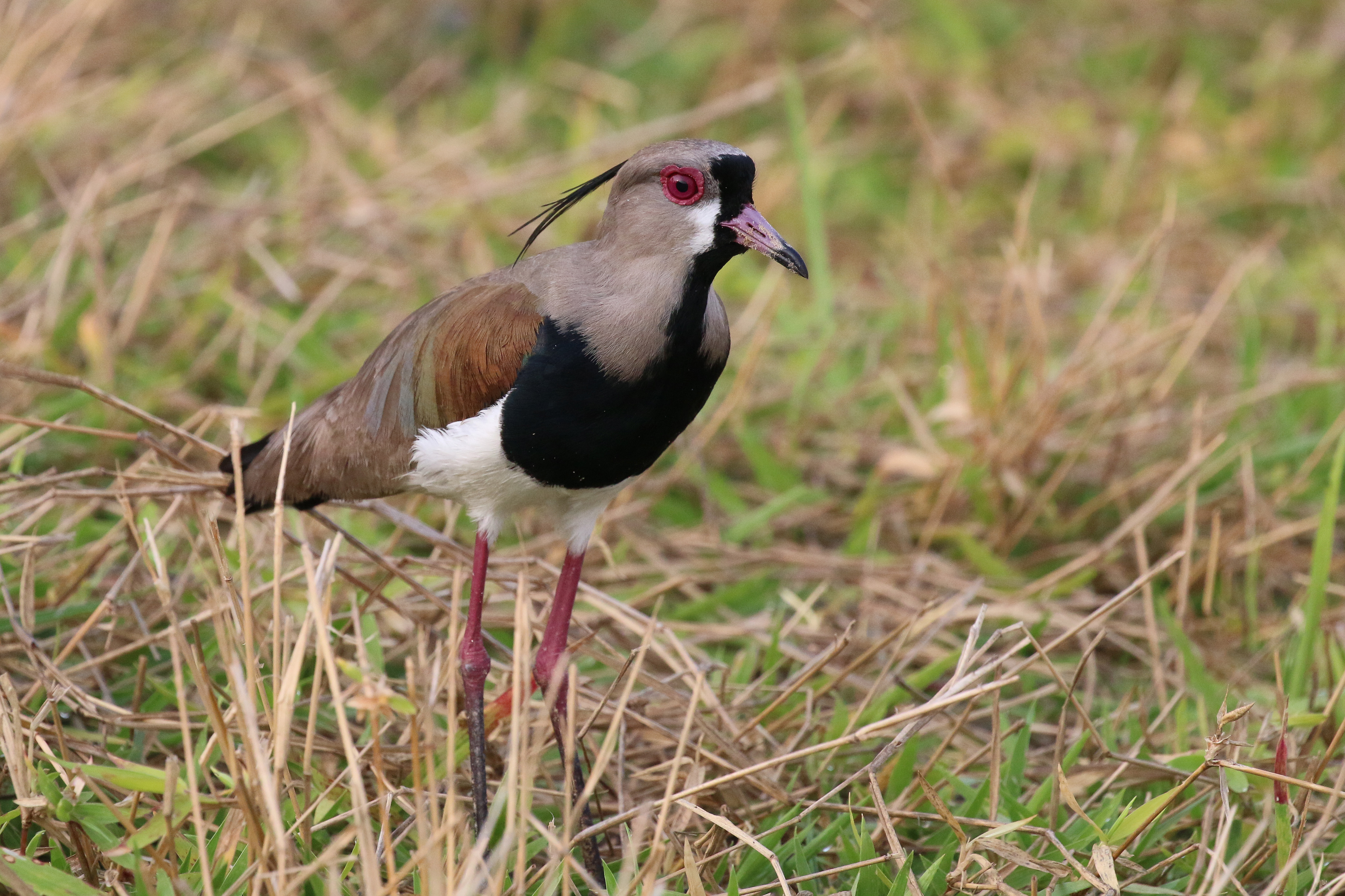 Southern lapwing (Vanellus chilensis lampronotus), The Pantanal, Brazil